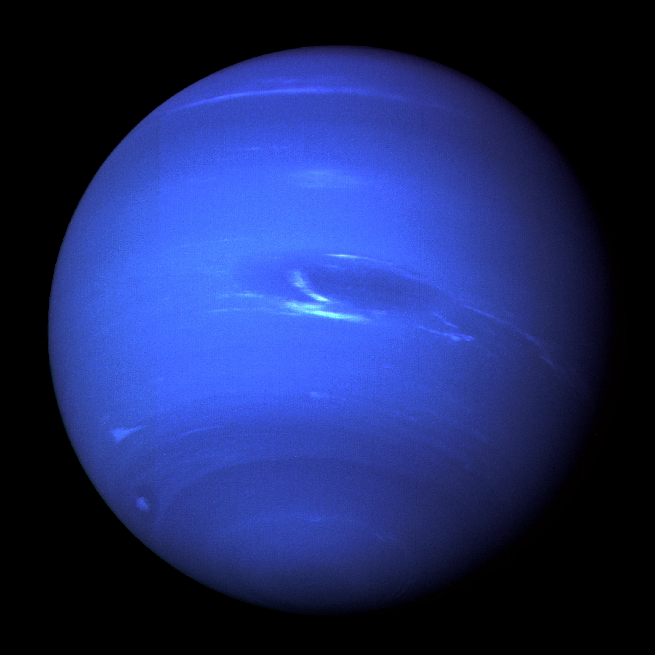 This picture of Neptune was produced from the last whole planet images taken through the green and orange filters on the Voyager 2 narrow angle camera. The images were taken at a range of 4.4 million miles from the planet, 4 days and 20 hours before closest approach in August 1989.The picture shows the Great Dark Spot and its companion bright smudge; on the west limb the fast moving bright feature called Scooter and the little dark spot are visible. These clouds were seen to persist for as long as Voyager's cameras could resolve them. North of these, a bright cloud band similar to the south polar streak may be seen.